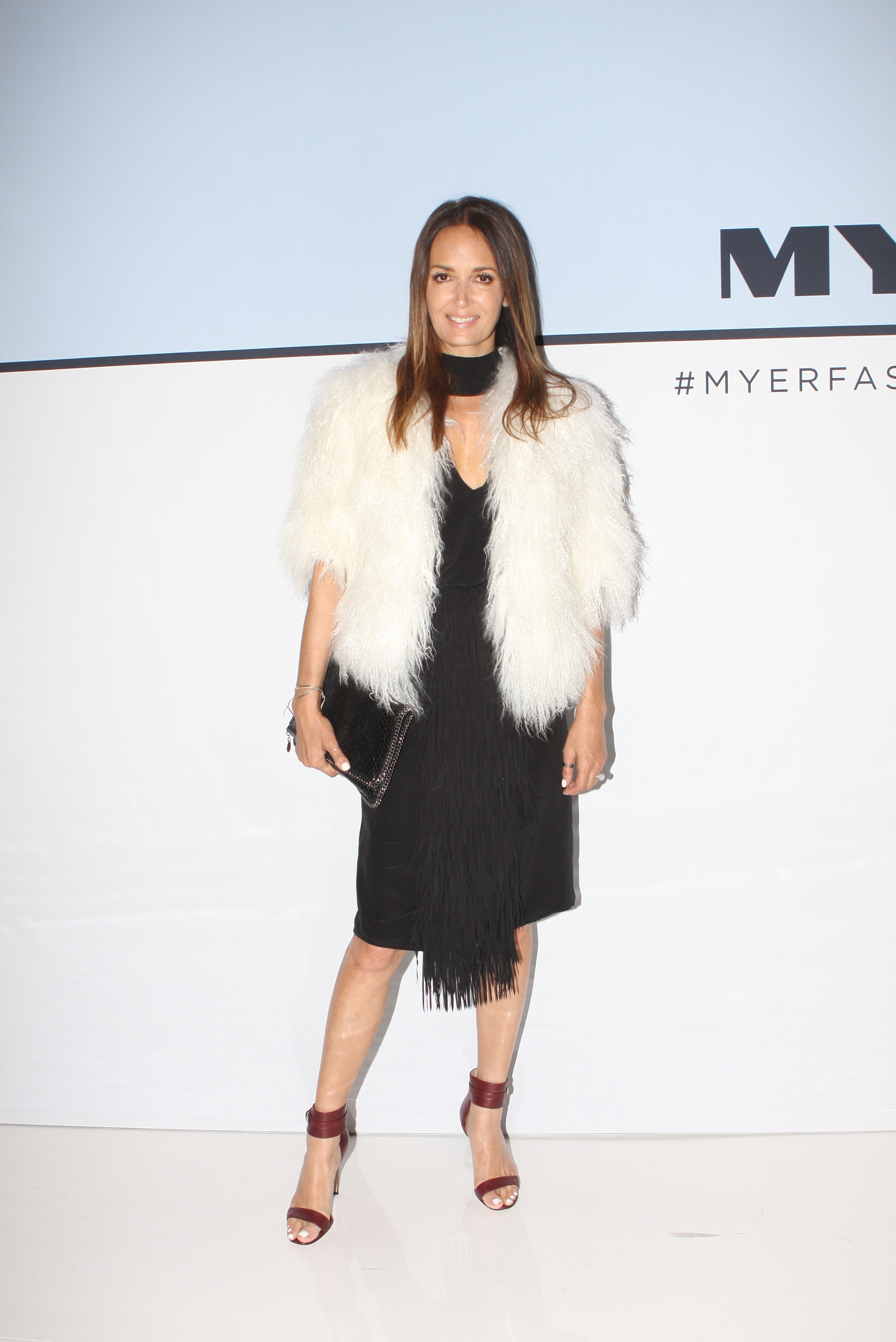 Gail Elliot at Myer Spring/Summer 2015 Fashion Launch Red Carpet